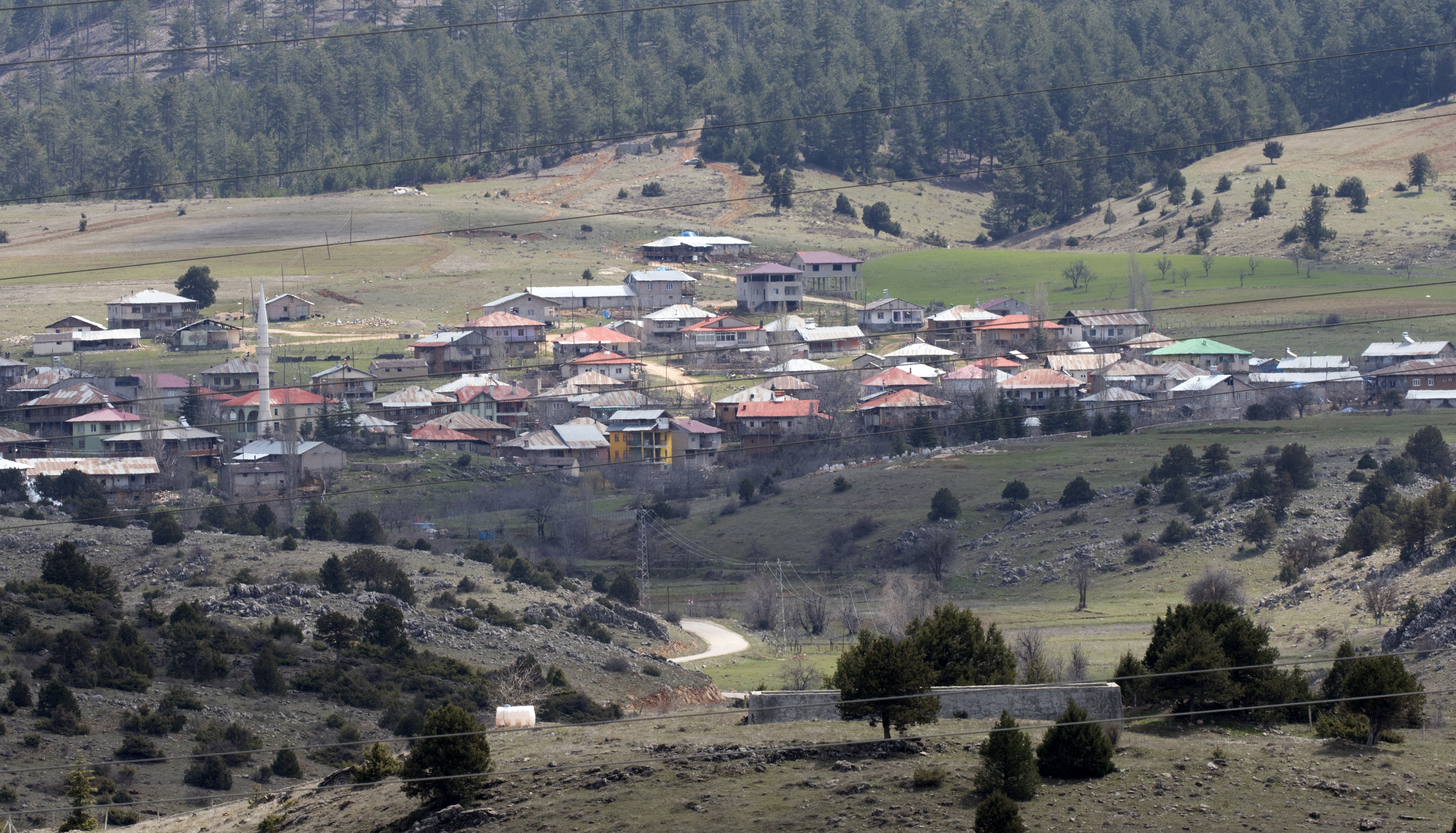 A view of Avcıpınarı neighborhood of Saimbeyli district in Adana province, Turkey.